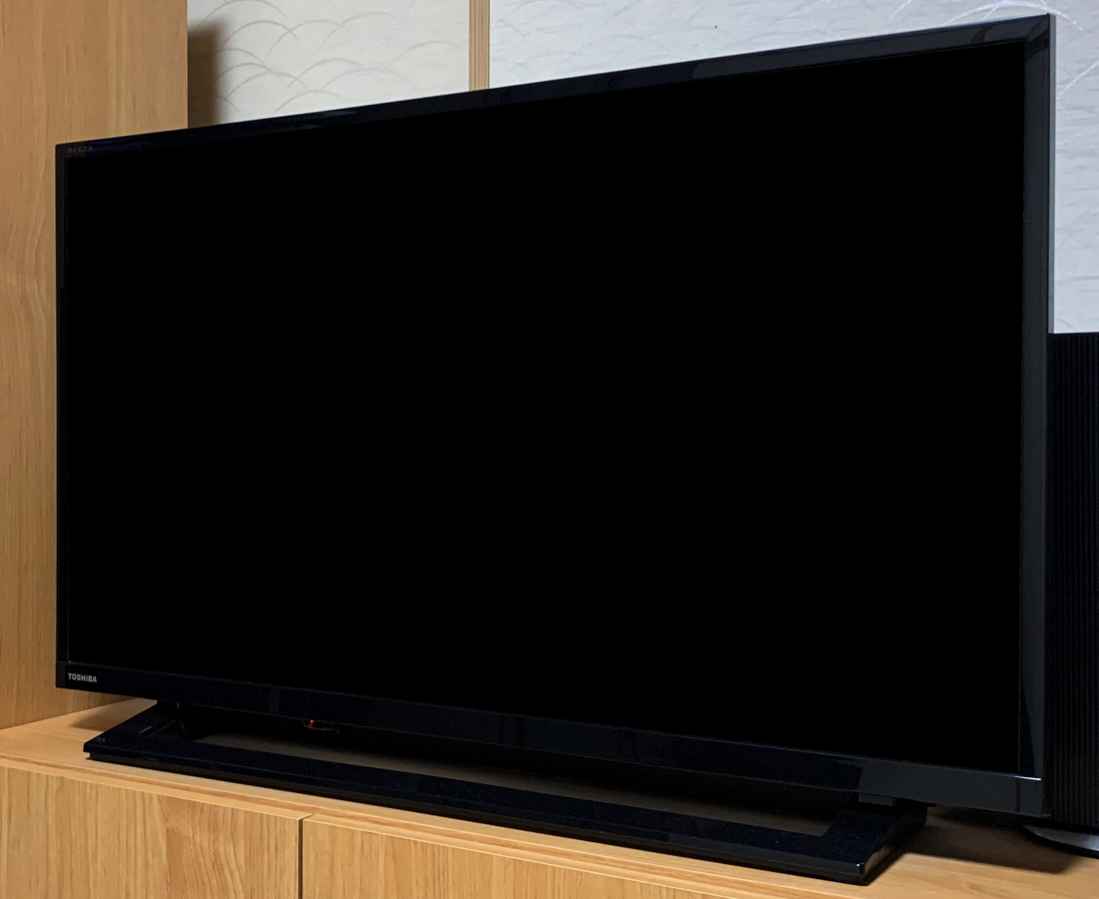 Toshiba Regza S Series 2018